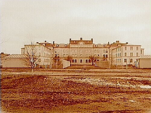 Västra Marks Mentalsjukhus, trevånings sjukhusbyggnader.